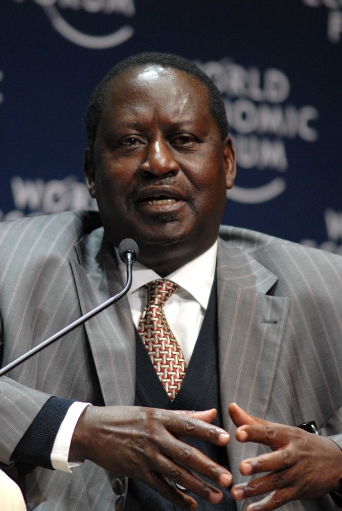 CAPE TOWN/SOUTH AFRICA, 4JUN08 - Raila Amolo Odinga, Prime Minister of Kenya, captured during the Opening Plenary of the World Economic Forum on Africa 2008 in Cape Town, South Africa, June 4, 2008. Copyright World Economic Forum/Eric Miller,(mailto